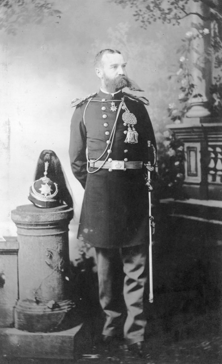 Colonel Volney V. Ashford in Honolulu Rifles dress uniform. [1]